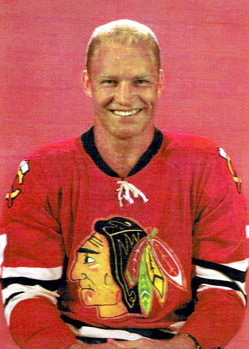 Trading card photo of Bobby Hull as a member of the Chicago Blackhawks. These cards were printed on the backs of Chex cereal boxes in the US and Canada from 1963 to 1965. Those collecting the cards cut them from the back of the boxes. Hull's card at PSA.